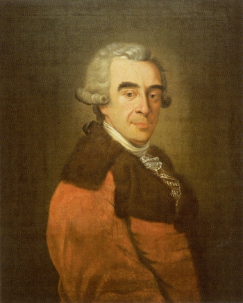 Prince Nikolai Sergeyevich Volkonsky, grandfarther of Leo Tolstoy and prototype for Prince Nikolai Bolkonsky in "War and Peace"